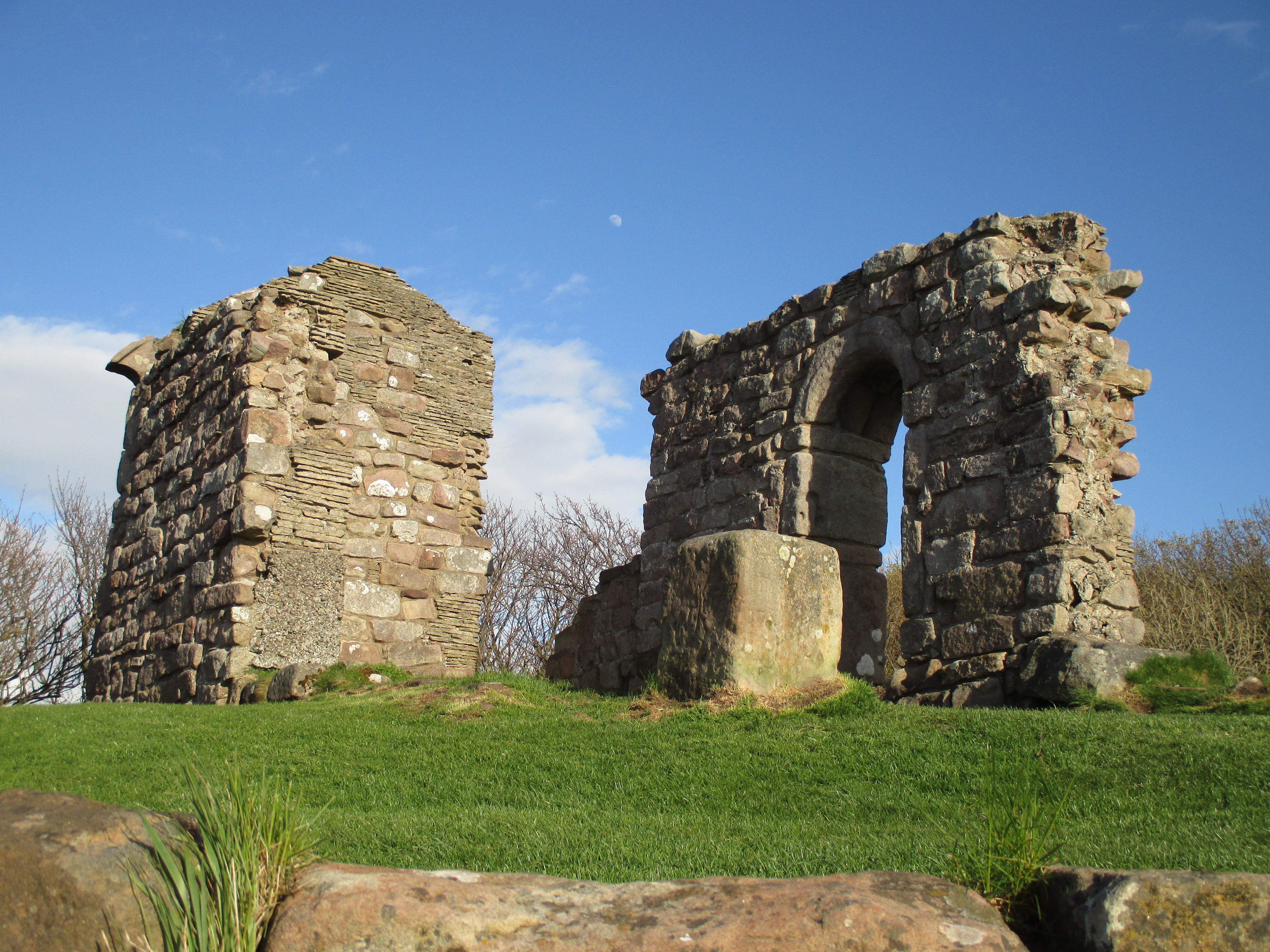 St Patrick's Chapel, Heysham, Lancashire